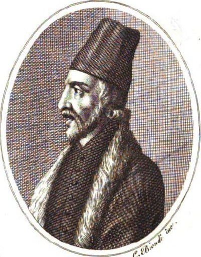 Antonio Cassarino, Sicilian humanist